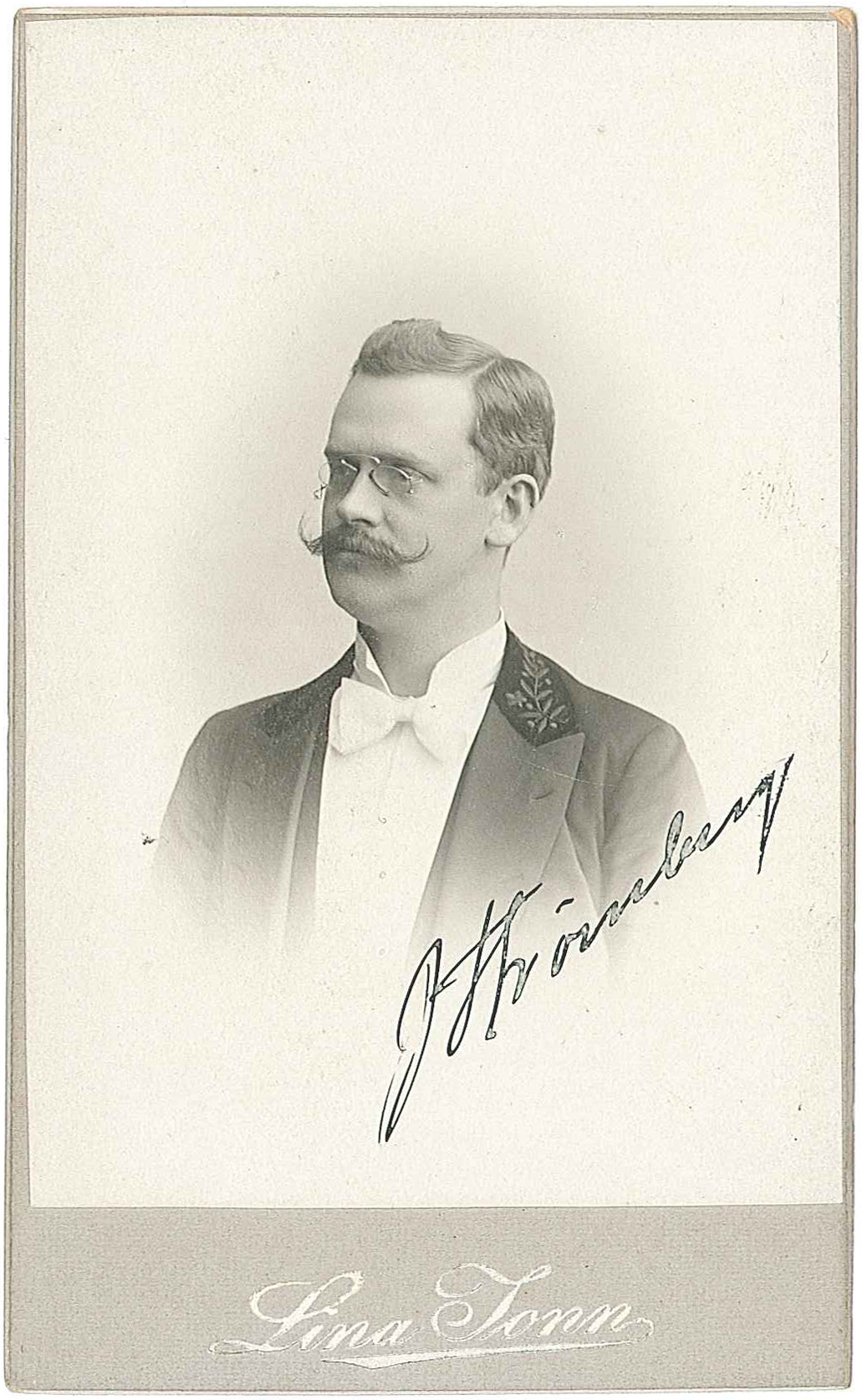 Johannes Strömberg (1868-1916), during the years 1898-1916 principal/head master of "Lunds Privata Elementarskola" (a gymnasium in Lund, later to be renamed "Strömbergsskolan" after him; today known as Spyken).